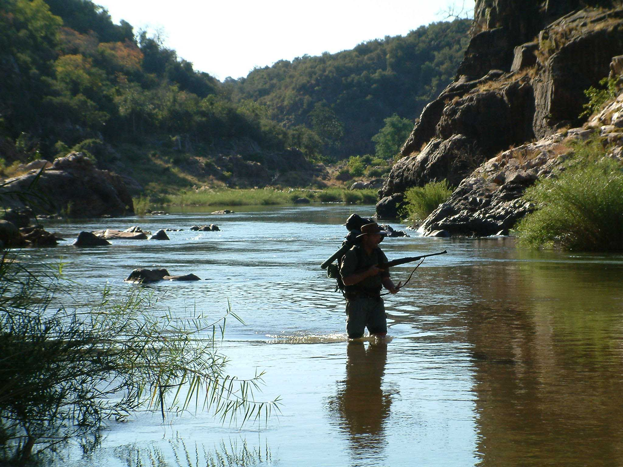 Crossing the Luvuvhu river in Lanner Gorge, in the Pafuri region of the northern Kruger Park, South Africa